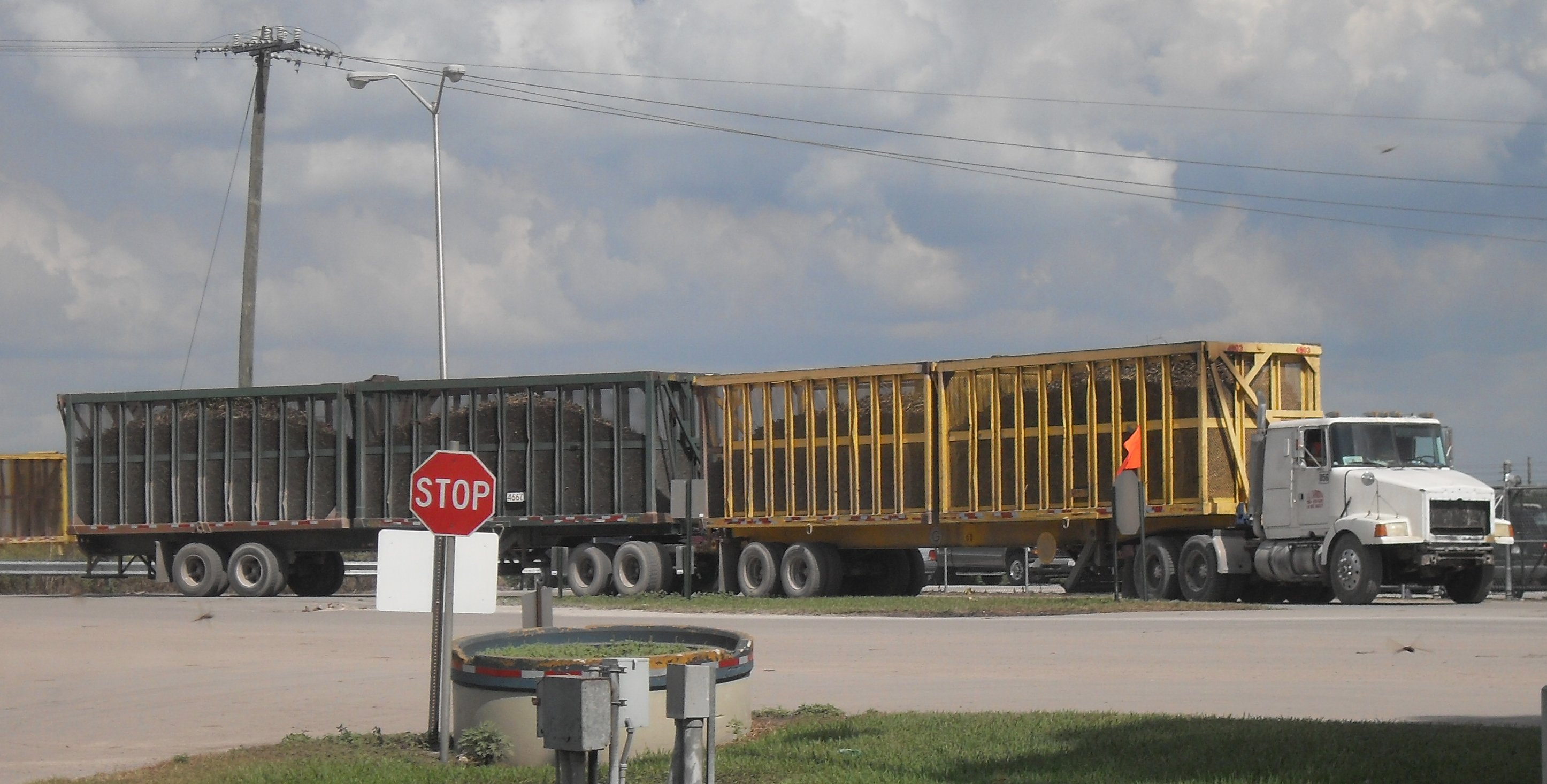 truck and trailers hauling cane to a cane sugar mill in Florida, USA